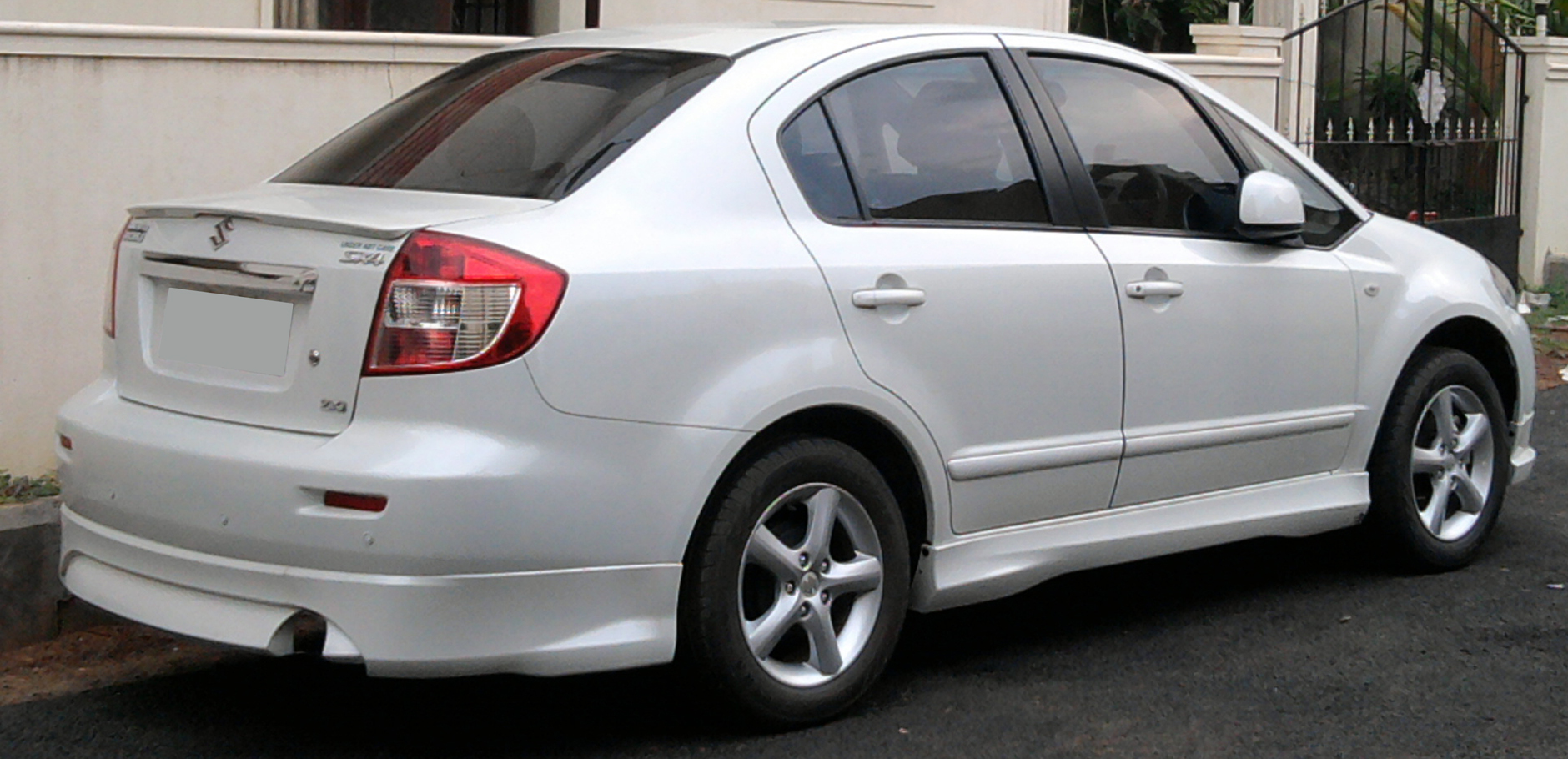 Maruti Suzuki SX4 Sports kit